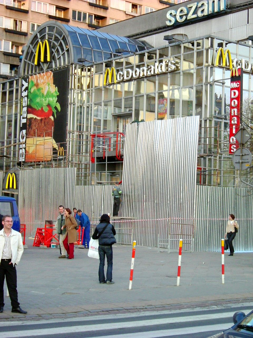 Preparation to European Economic Summit (28-30 April 2004), Warsaw, Poland.